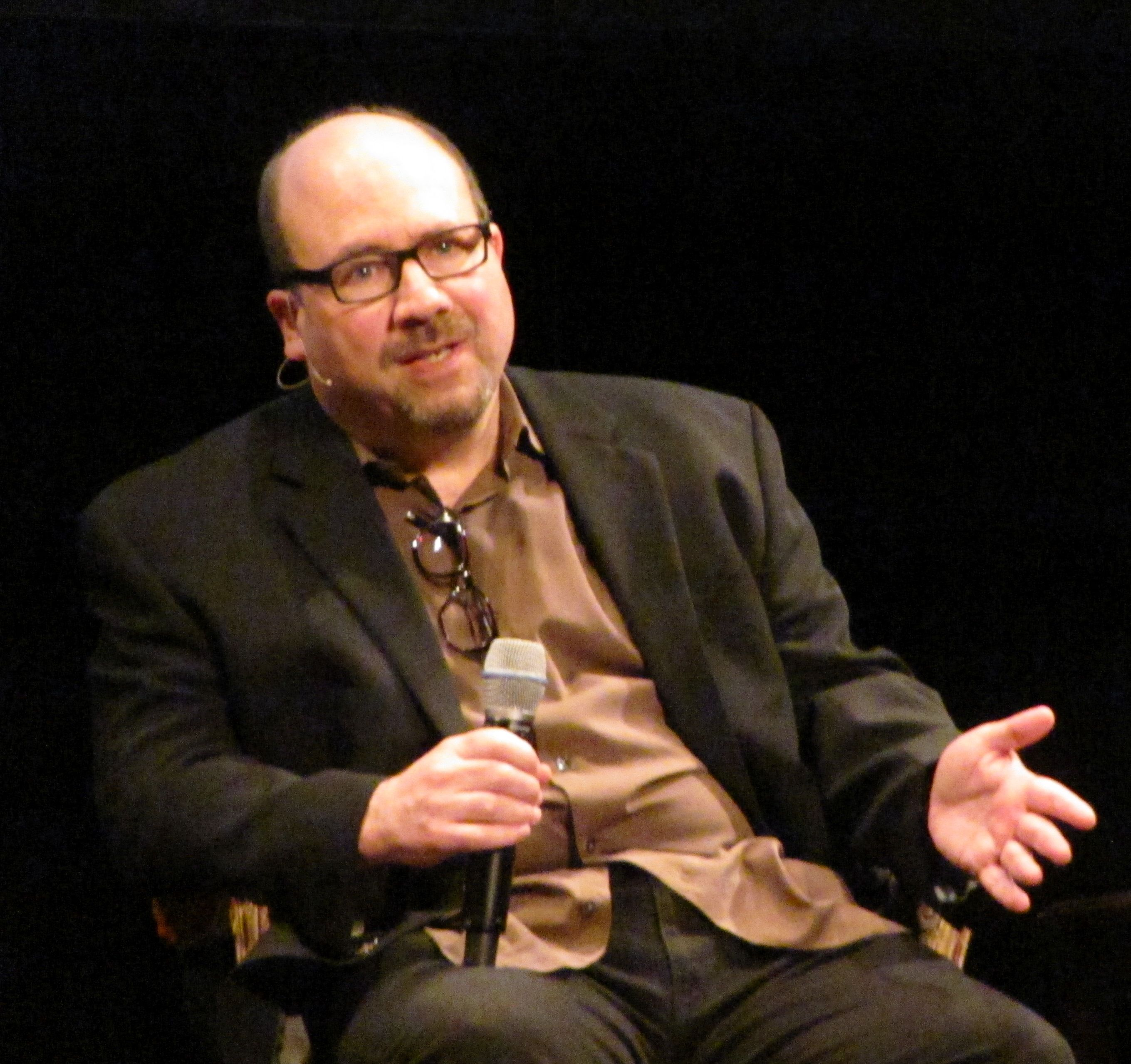 How Tech has changed Philanthropy, a KQED event at the Nourse Theater in San Francisco, January 28, 2014.